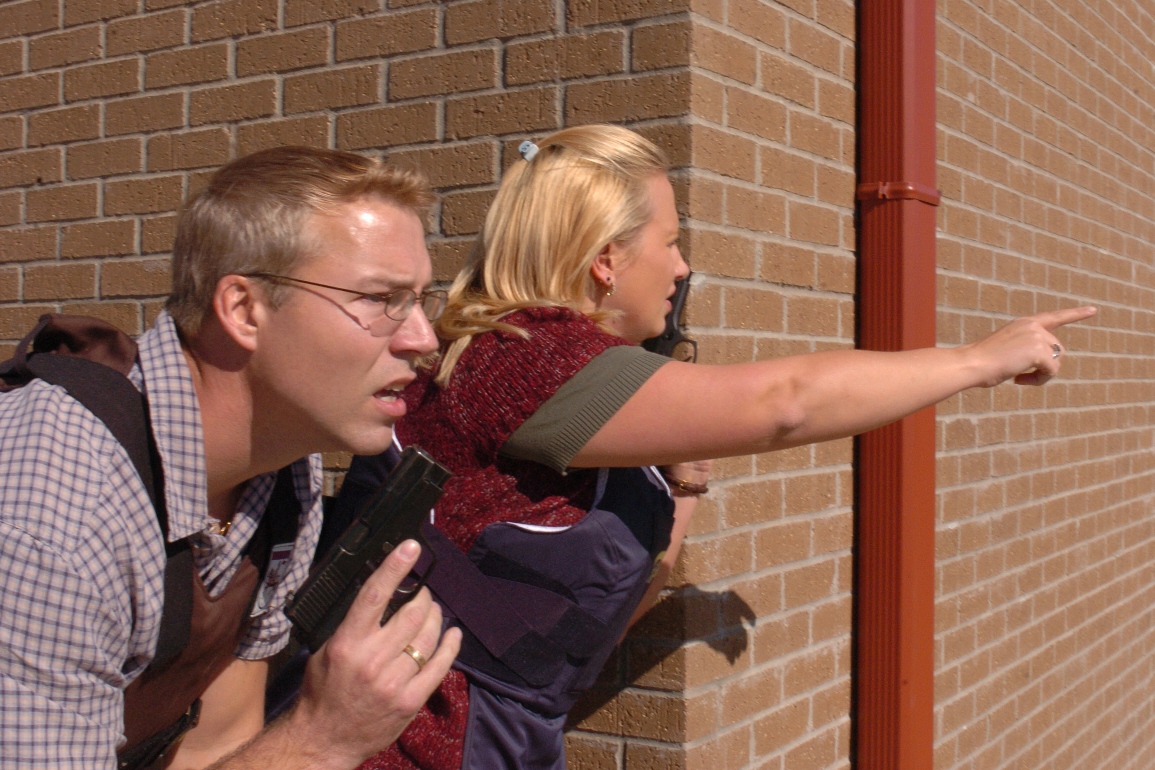 Detectives assigned to the Fort Hood Directorate of Emergency Sevices respond Nov. 5, 2009, to a shooter barricaded in the post's deployment readiness center. Thirteen people died and 30 more were wounded in the Fort Hood, Texas, incident. U.S. Army photo by Andrew Evans See more at